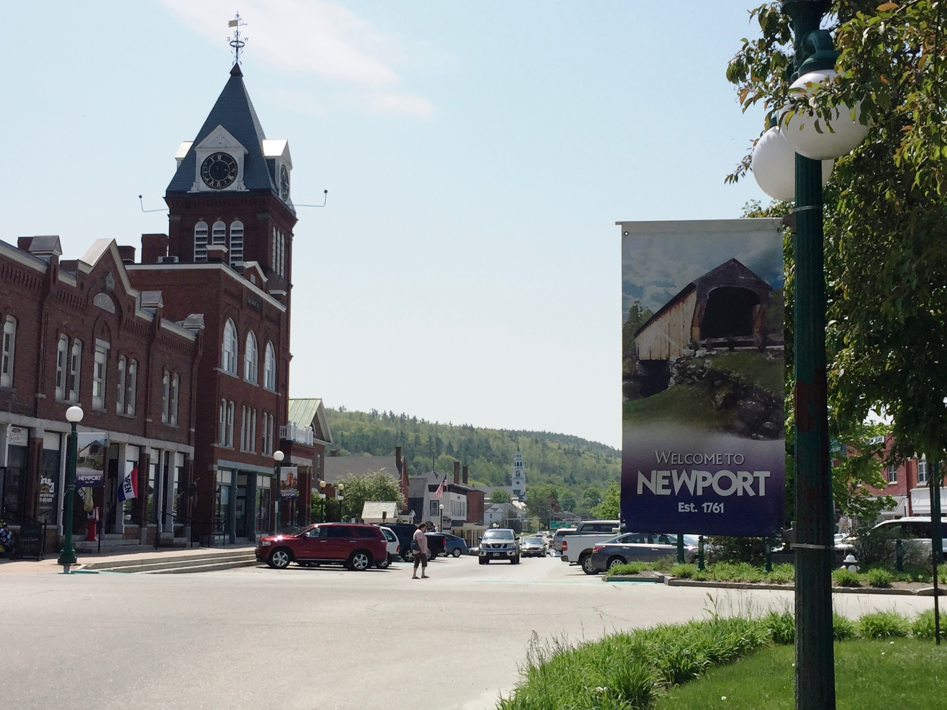 Downtown Newport, New Hampshire, May 2016